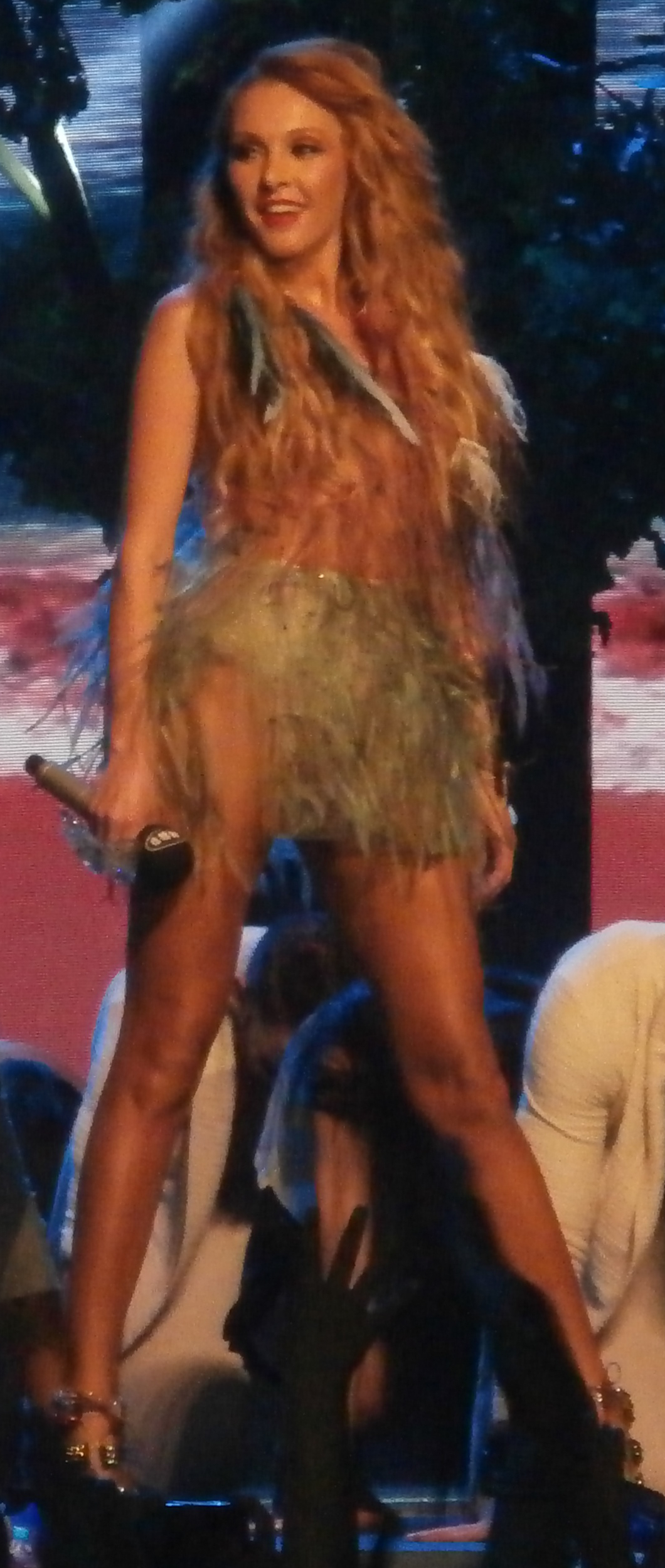 Tamta performing at Mad Video Music Awards 2017.